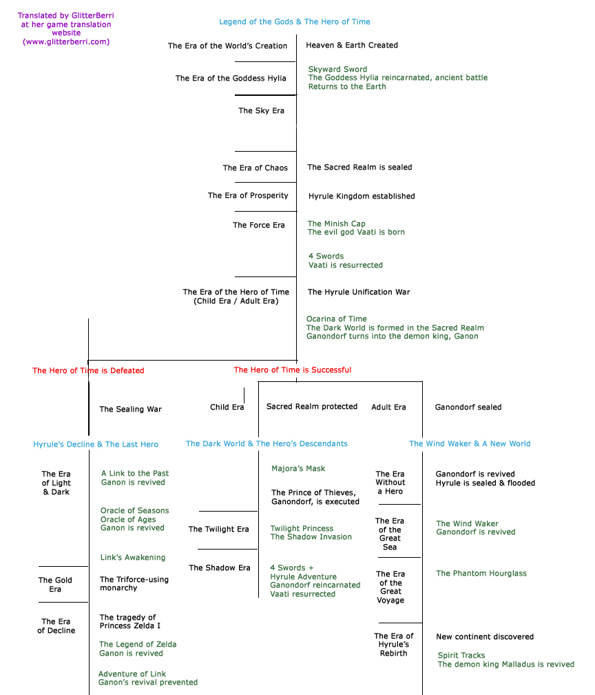 The translated timeline from Hyrule Historia.